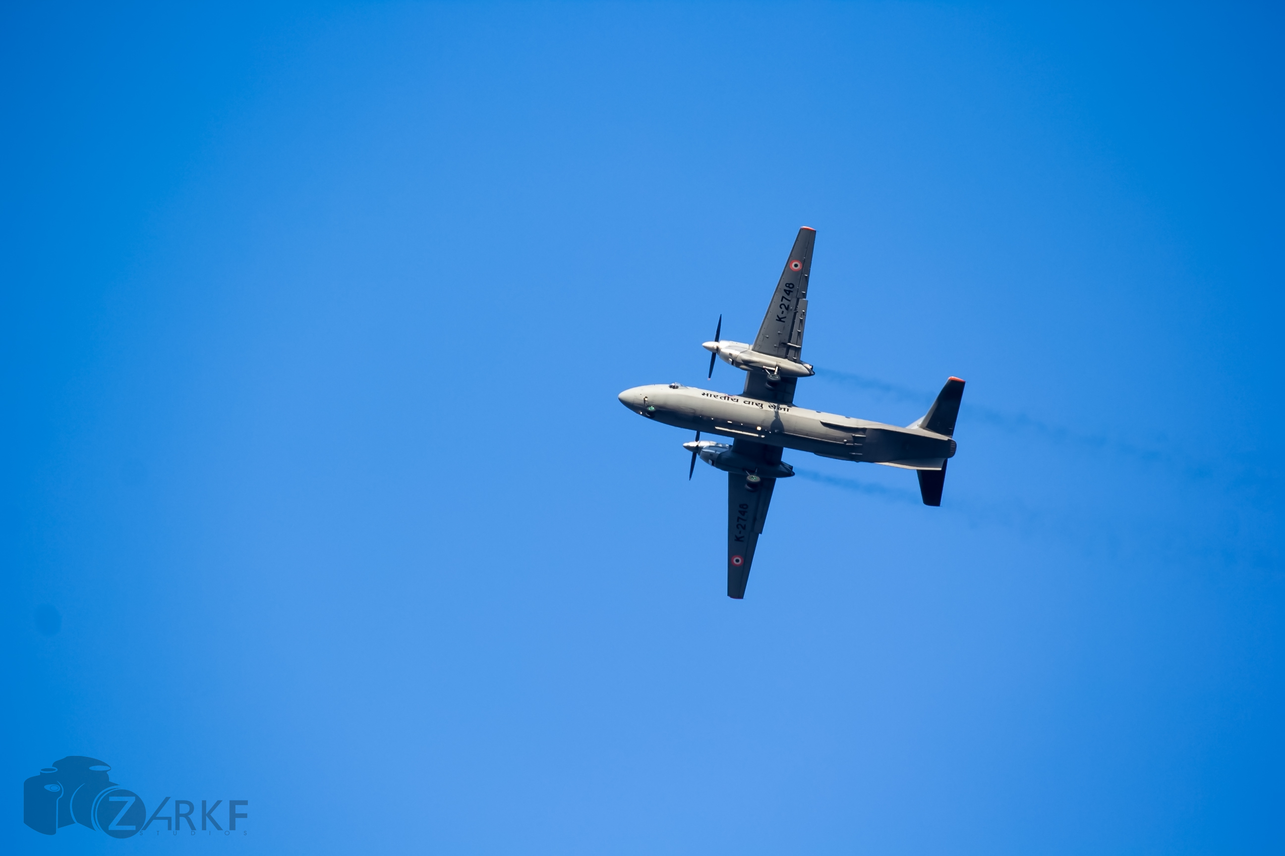 K-2748